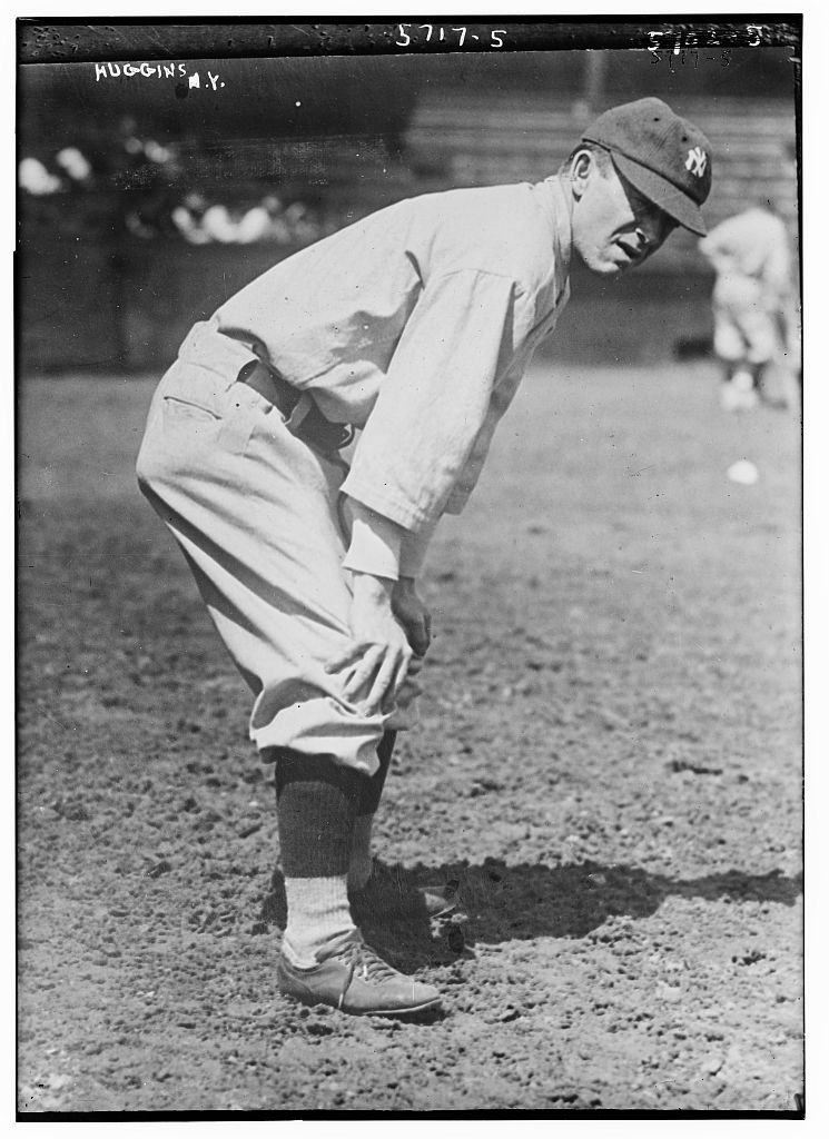 Title: [Miller Huggins, manager, New York AL (baseball)] Creator(s): Bain News Service, publisher Date Created/Published: [1922] Medium: 1 negative : glass ; 5 x 7 in. or smaller. Reproduction Number: LC-DIG-ggbain-34149 (digital file from original negative) Rights Advisory: No known restrictions on publication. Call Number: LC-B2- 5717-5 [P&P] Repository: Library of Congress Prints and Photographs Division Washington, D.C. 20540 USA Notes: Original data provided by the Bain News Service on the negatives or caption cards: Huggins, NY. Corrected title and date based on research by the Pictorial History Committee, Society for American Baseball Research, 2006. Forms part of: George Grantham Bain Collection (Library of Congress). General information about the Bain Collection is available at Format: Glass negatives. Collections: Bain Collection Bookmark This Record: This work is from the George Grantham Bain collection at the Library of Congress. According to the library, there are no known copyright restrictions on the use of this work. This image is available from the United States Library of Congress's Prints and Photographs division under the digital ID ggbain.34149. This tag does not indicate the copyright status of the attached work. A normal copyright tag is still required. See Commons:Licensing for more information.